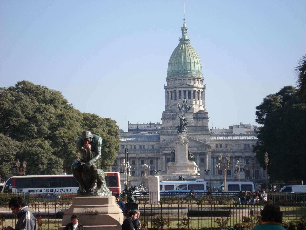 Argentine Congress building in Buenos Aires, Argentina